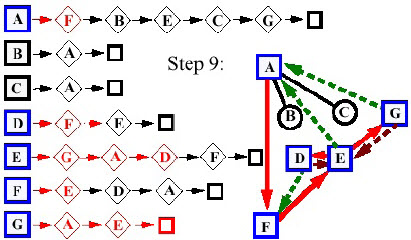 Dry run Depth-first search Algorithm in Graph, step 9